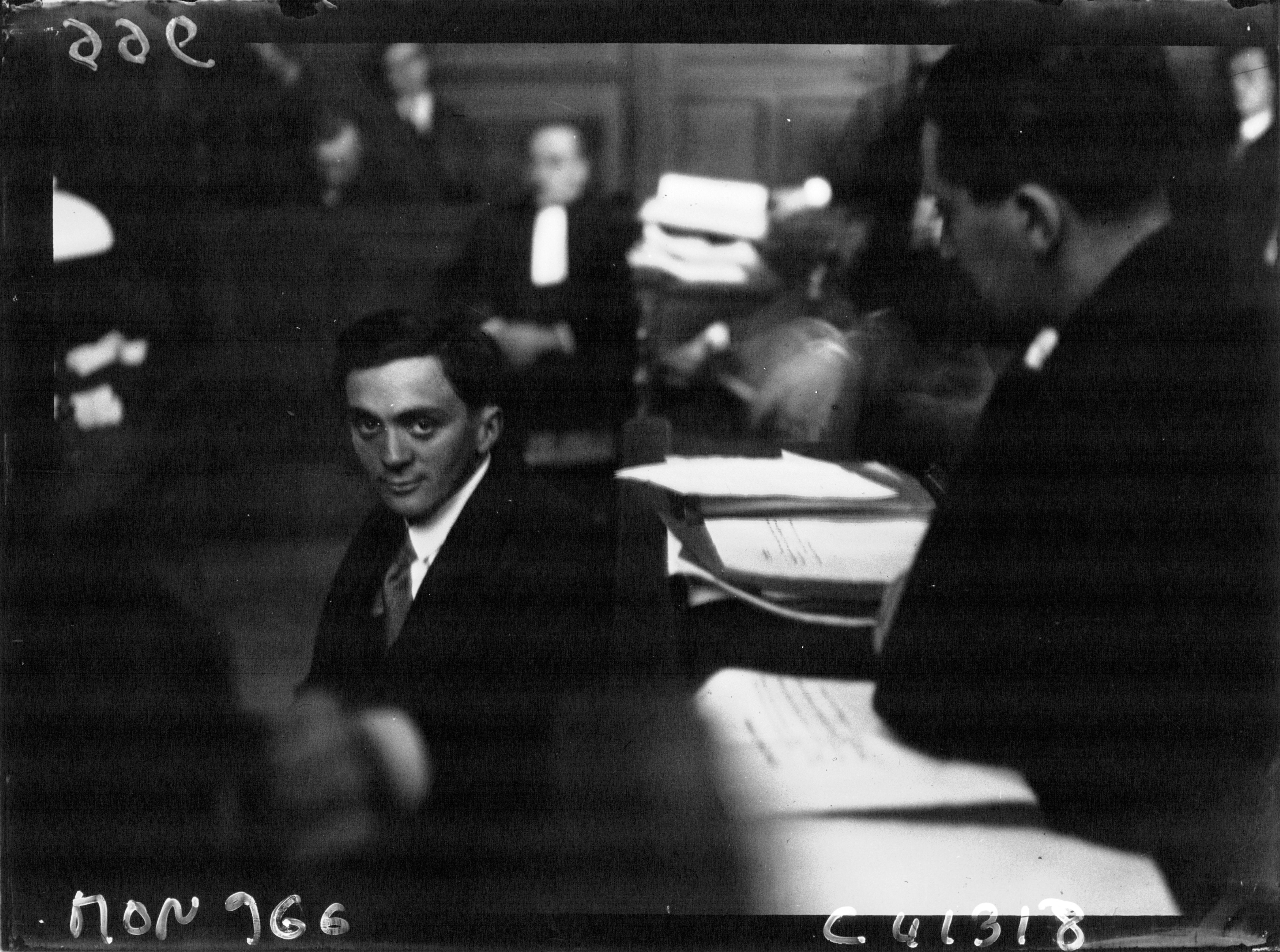 Emile Fradin's trial